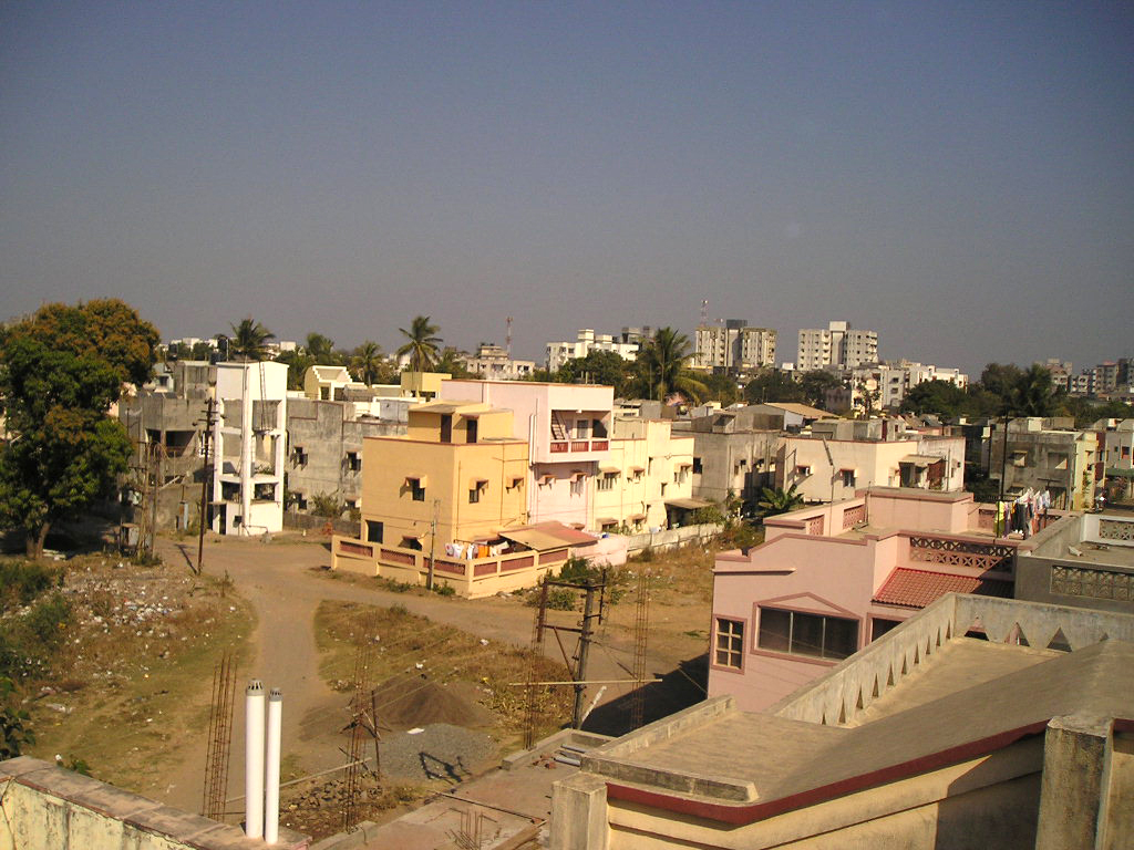 City of Valsad, in the state of Gujarat, India.